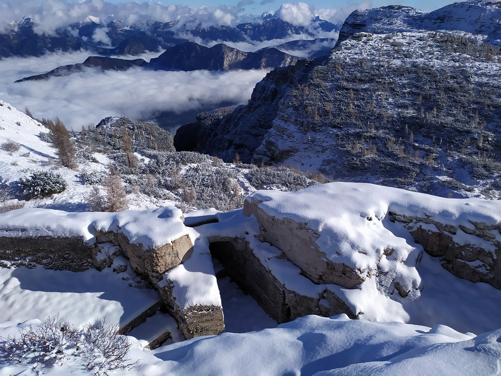 au trench, mount Ortigara